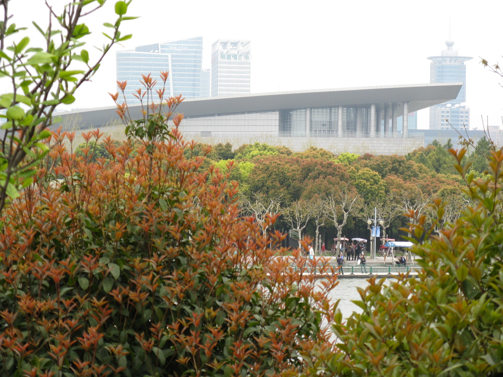 The Shanghai Science & Technology Museum in Pudong, Shanghai, PRC, as seen from nearby parkland.